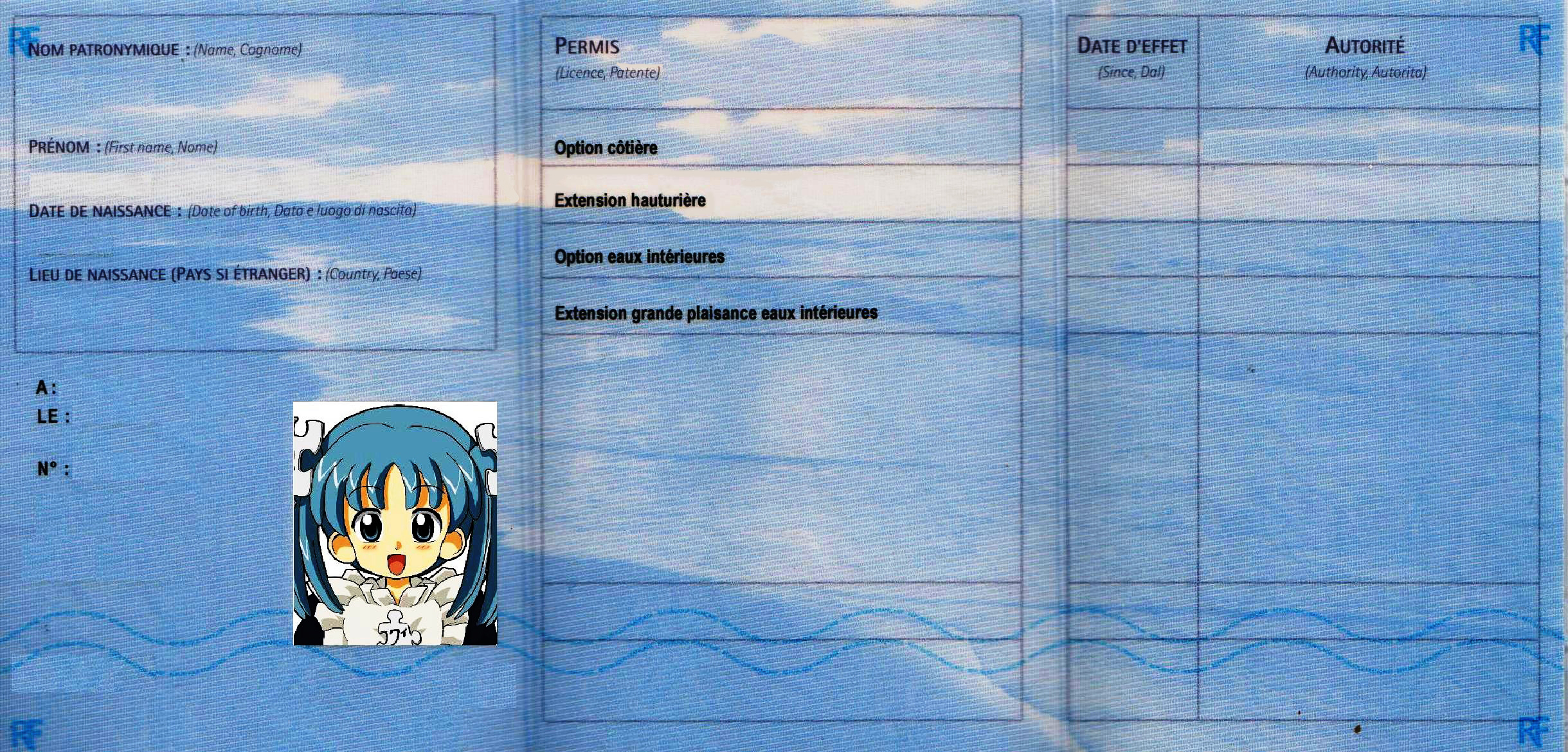 License pleasure boats motor. Permit issued in France.